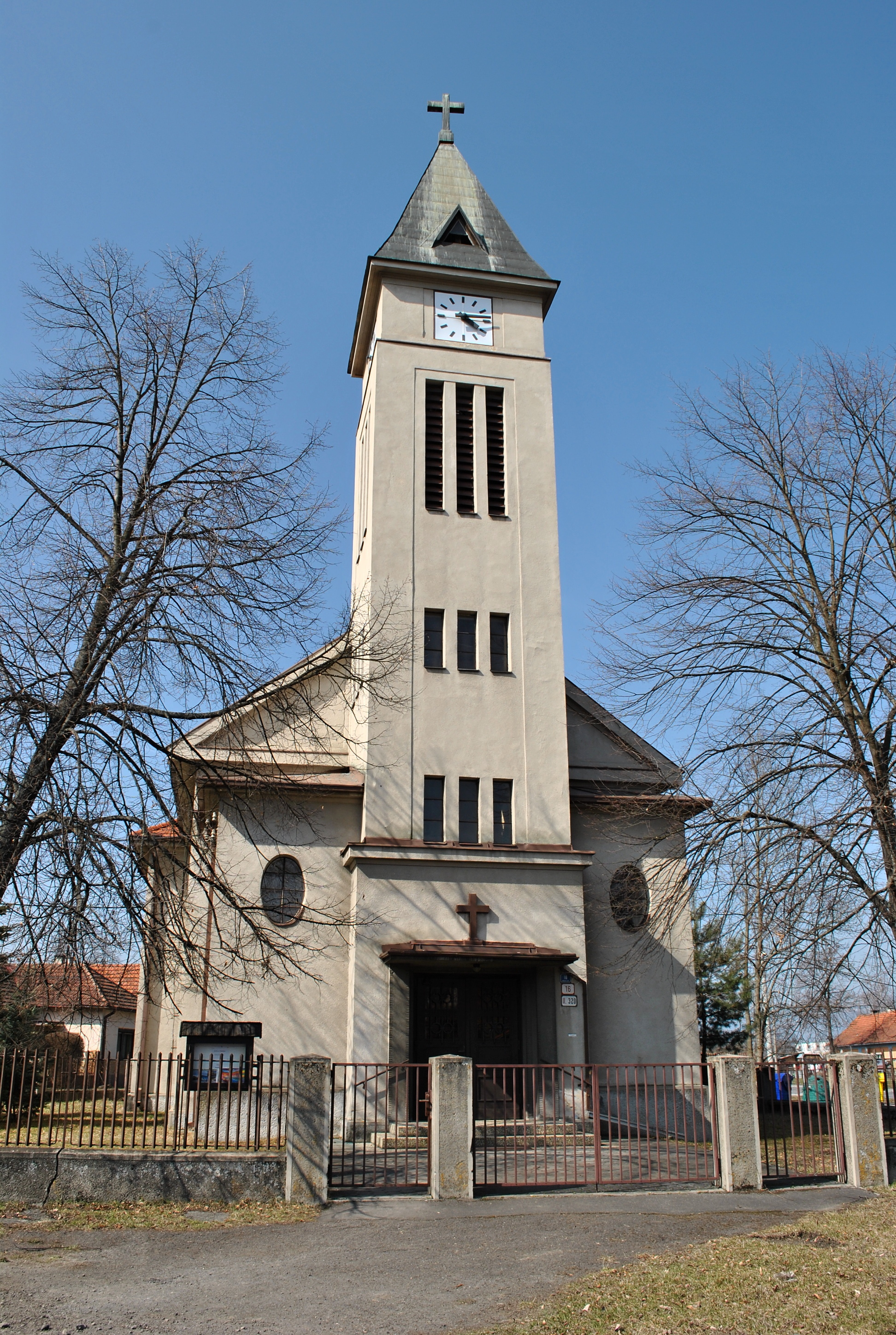 Liptovský Mikuláš - Palúdzka - Protestant Church